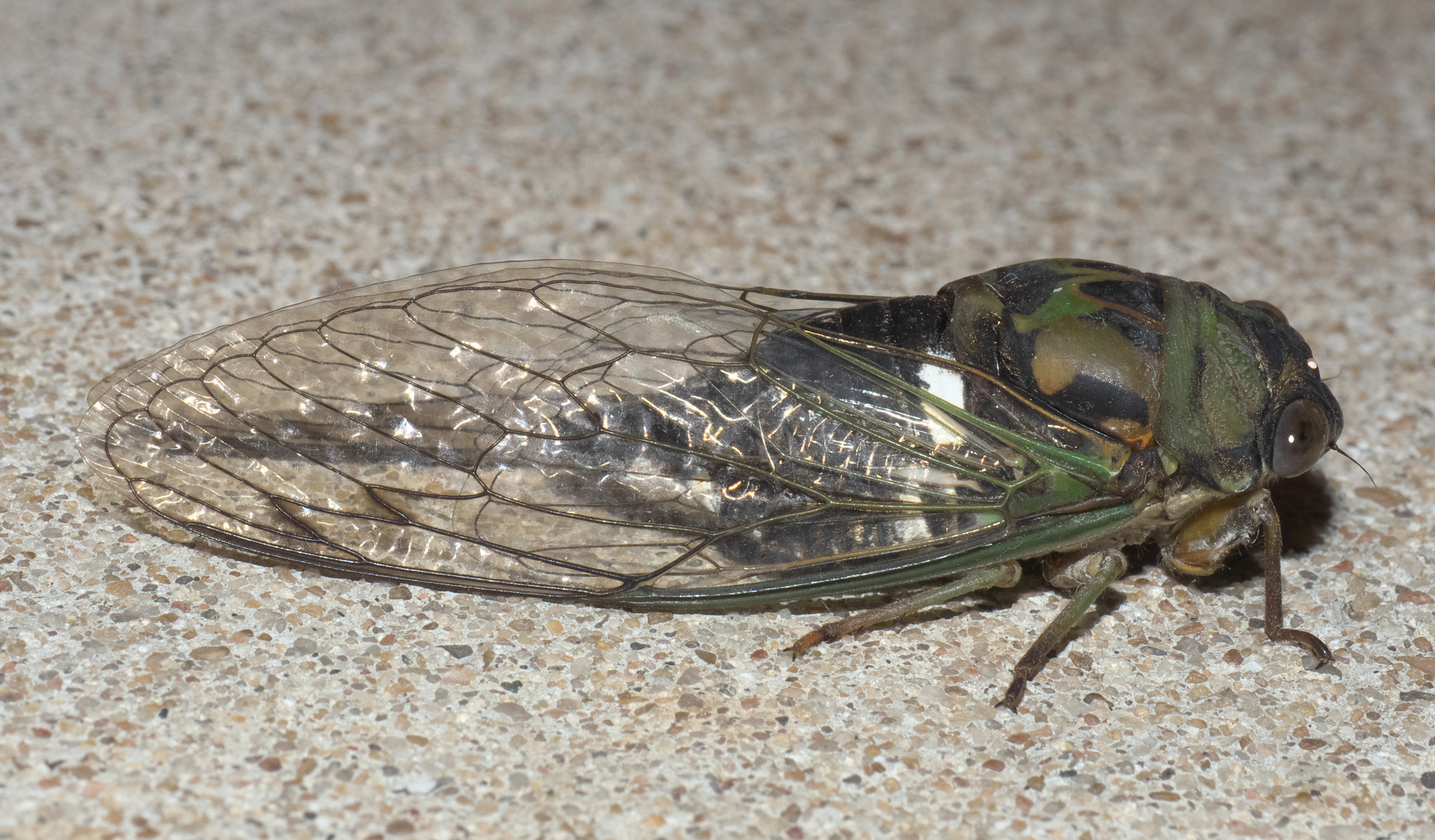 Neotibicen pruinosus, Scissor(s) Grinder, ID Confidence: 88